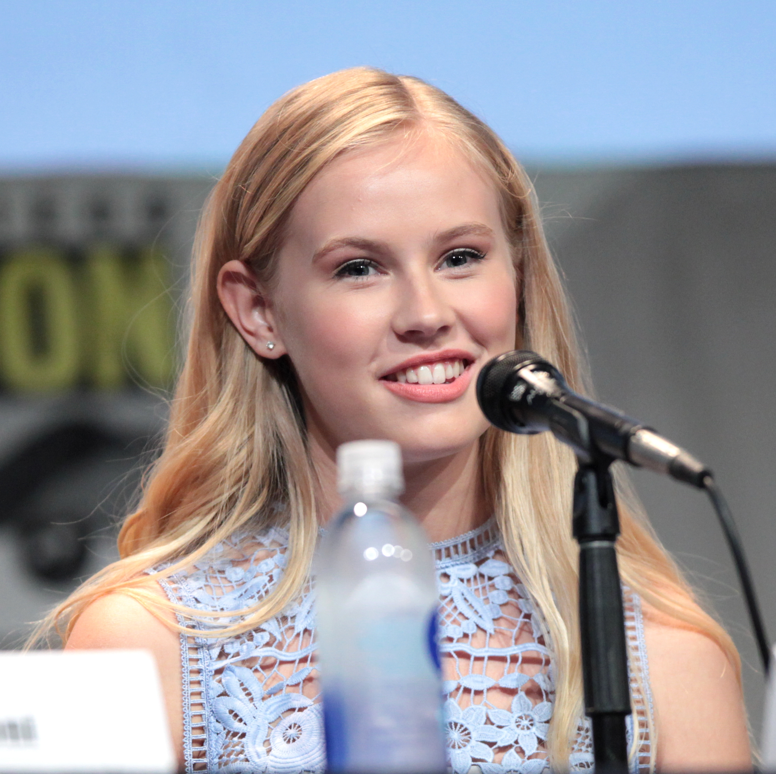 Danika Yarosh at the 2015 San Diego Comic Con International in San Diego, California.